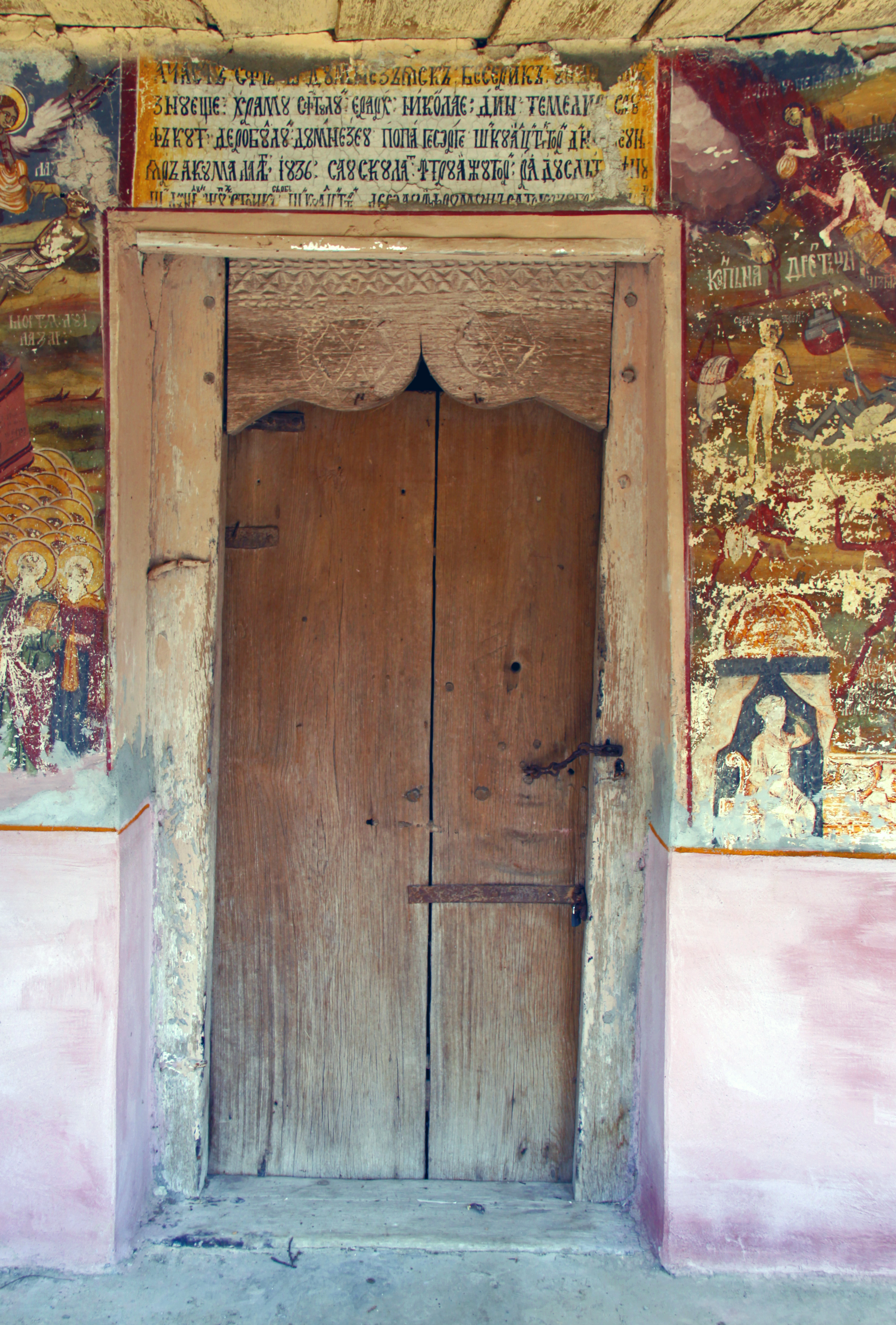 Ioneştii Govorii, Vâlcea county, Romania: the wooden church, the entrance.